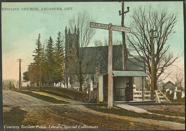 English church, Ancaster, Ontario, Canada Creator: Unknown Date: 1910 Identifier: PC-ON 40 Format: Postcard Rights: Public domain Courtesy: Toronto Public Library You can order order a print or high-resolution copy.